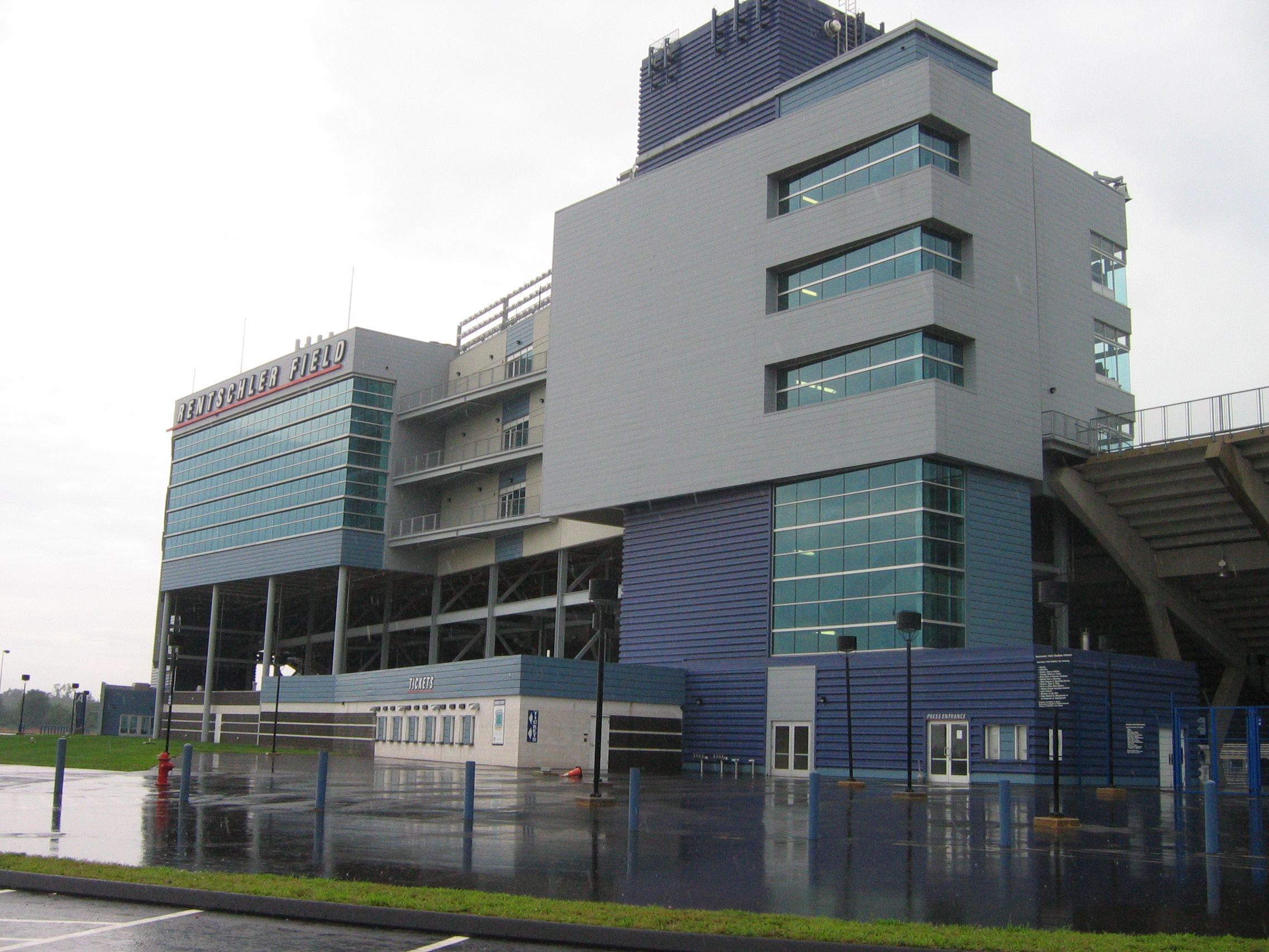 Football & Basketball Facilities UCONN Stadium, located off-campus in East Hartford